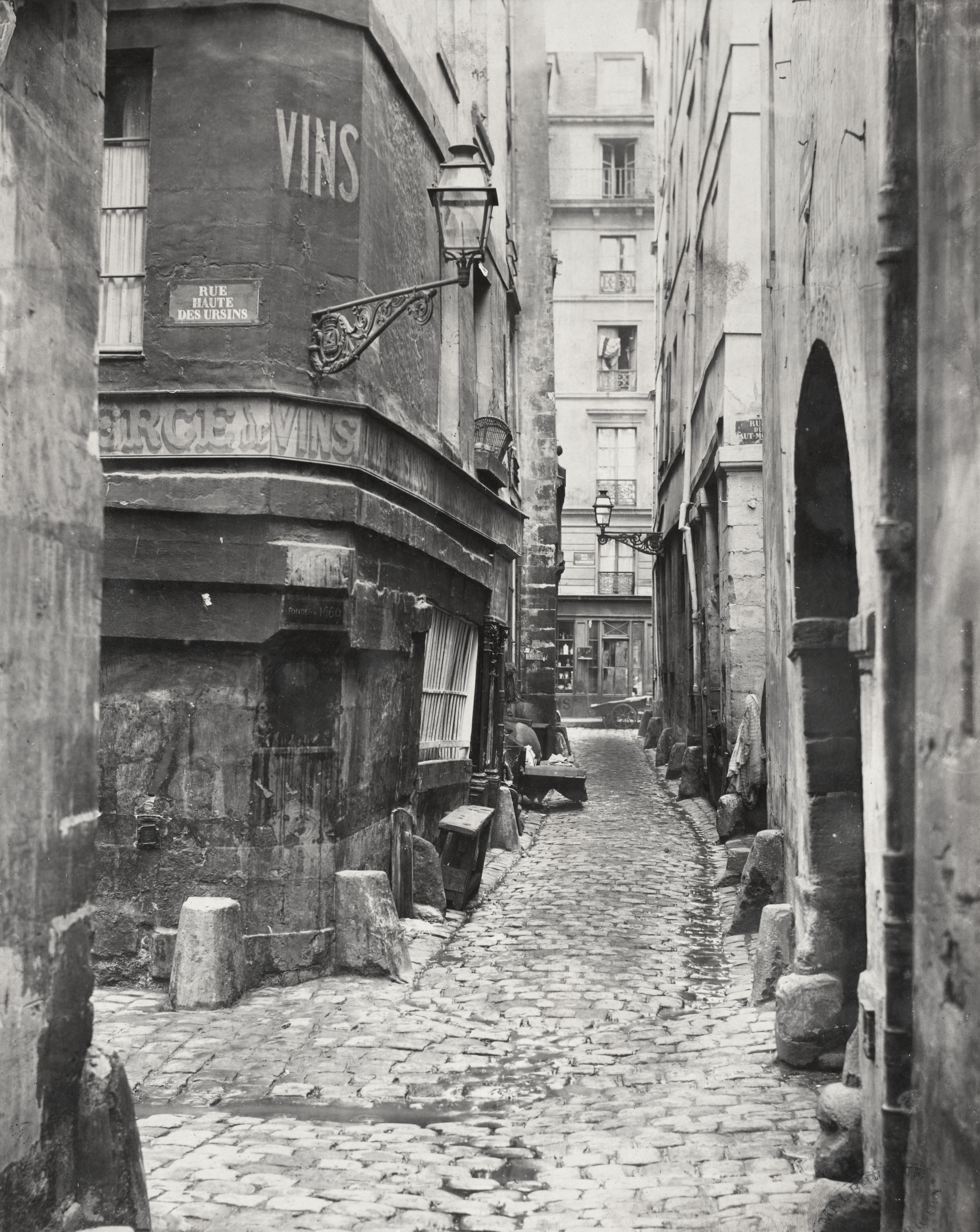 Looking along cobbled lane with plaque on wall branching off on left reading: Rue Haute des Ursins, lantern in bracket on corner of building, arched doorway on right.